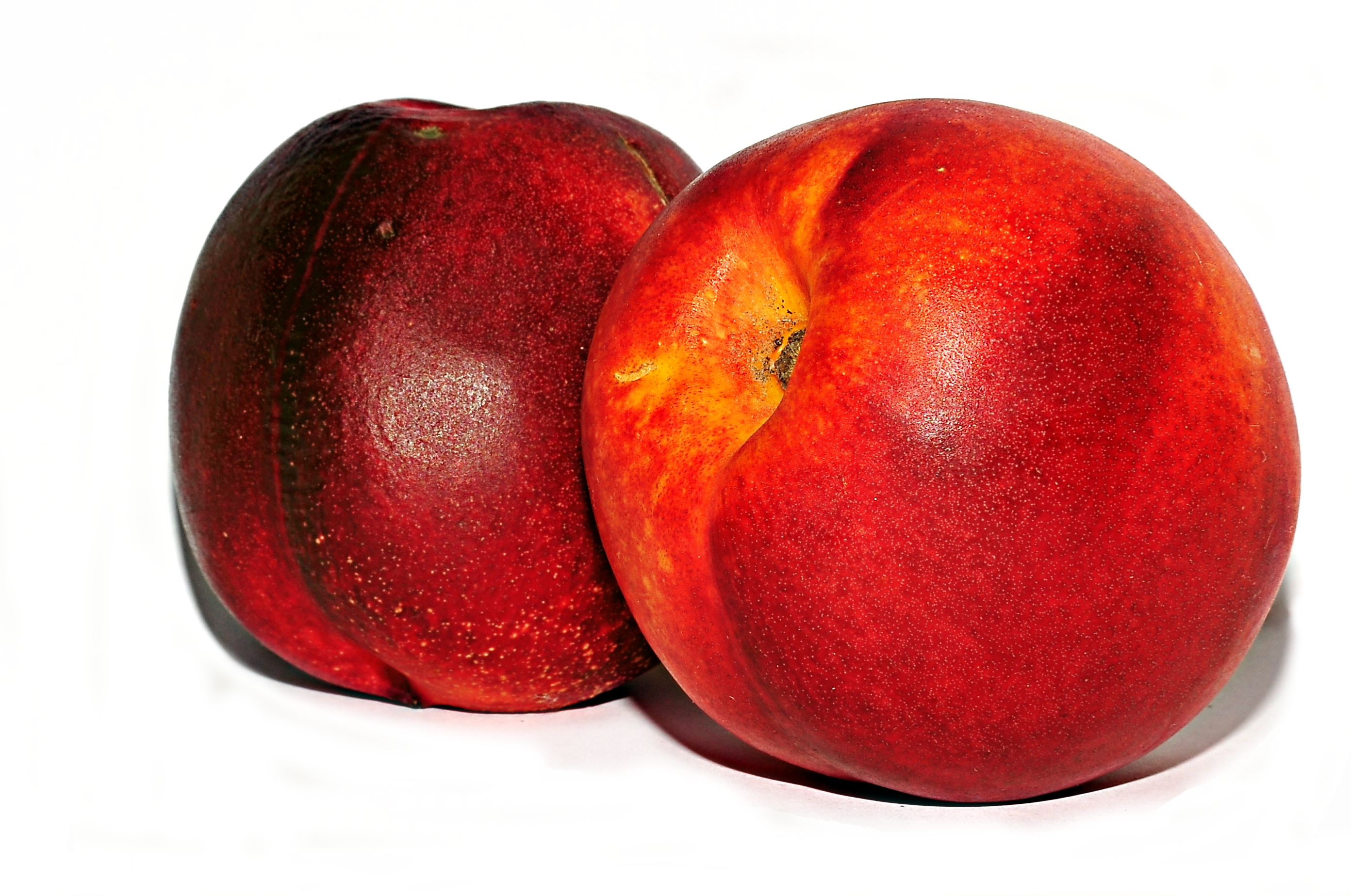 nectarine